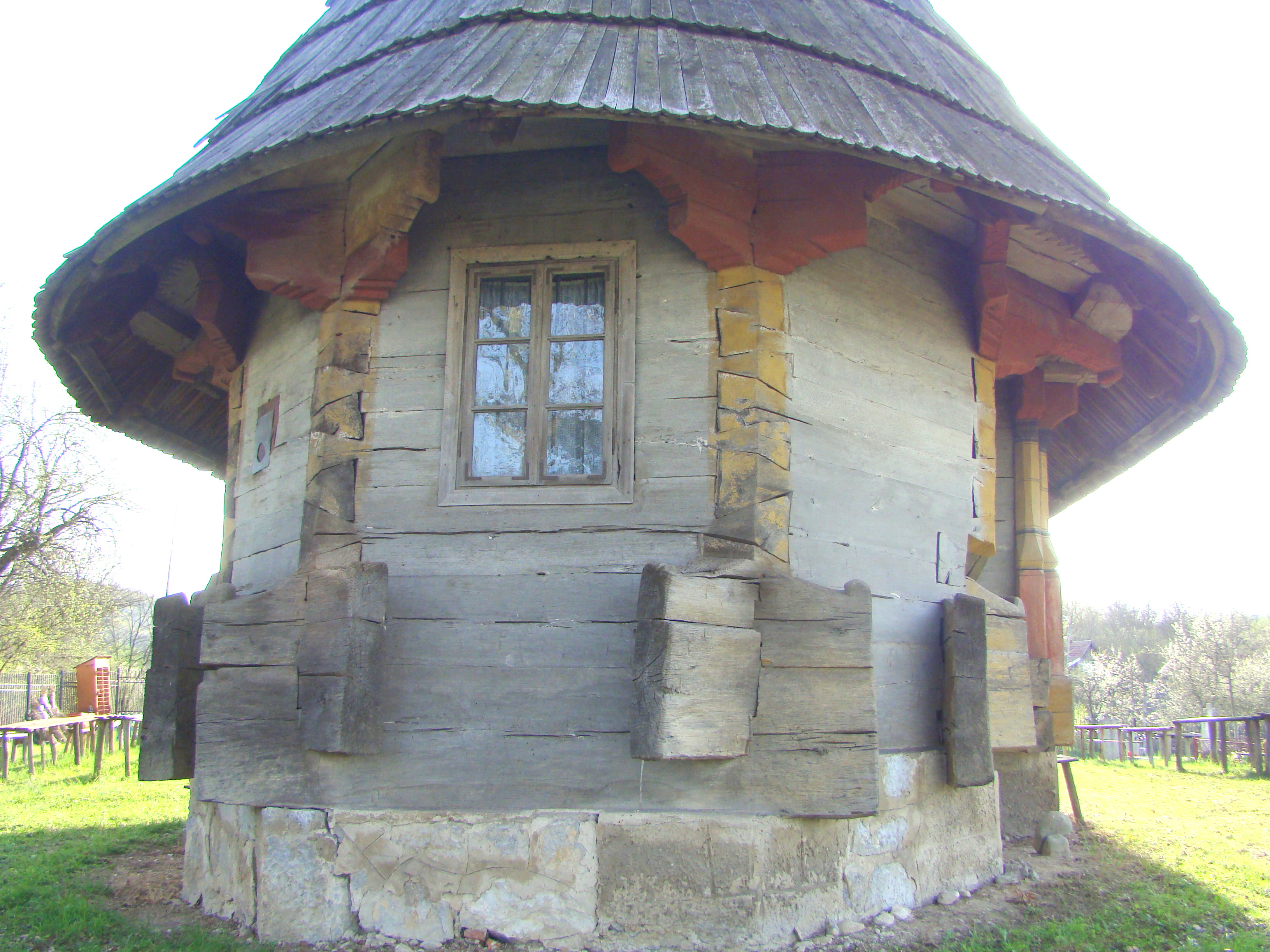 Wooden church in Negomir, Gorj county, Romania